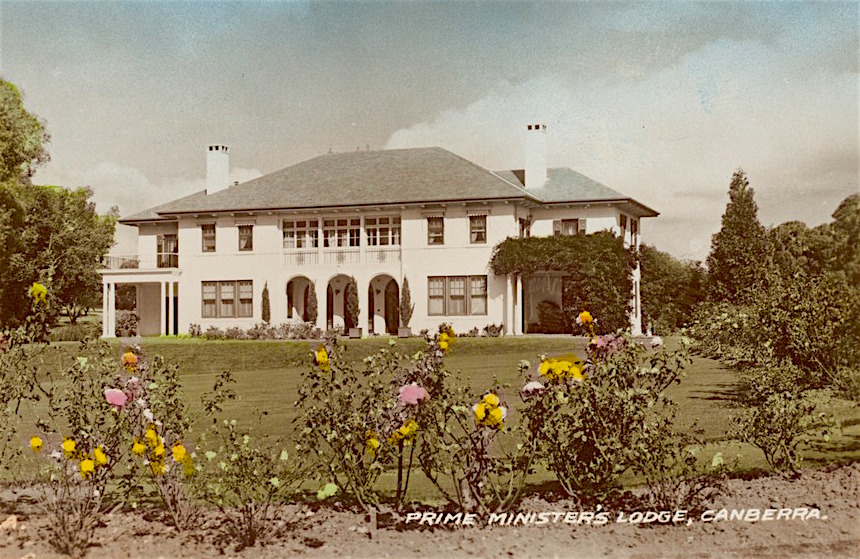 Prime Minister's Lodge, Canberra, [1930s].